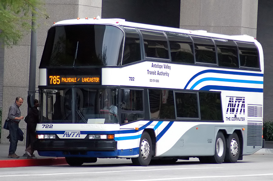 Antelope Valley Transit Authority #722, a 1996 Neoplan Skyliner AN122/3, is seen boarding passengers in downtown Los Angeles.